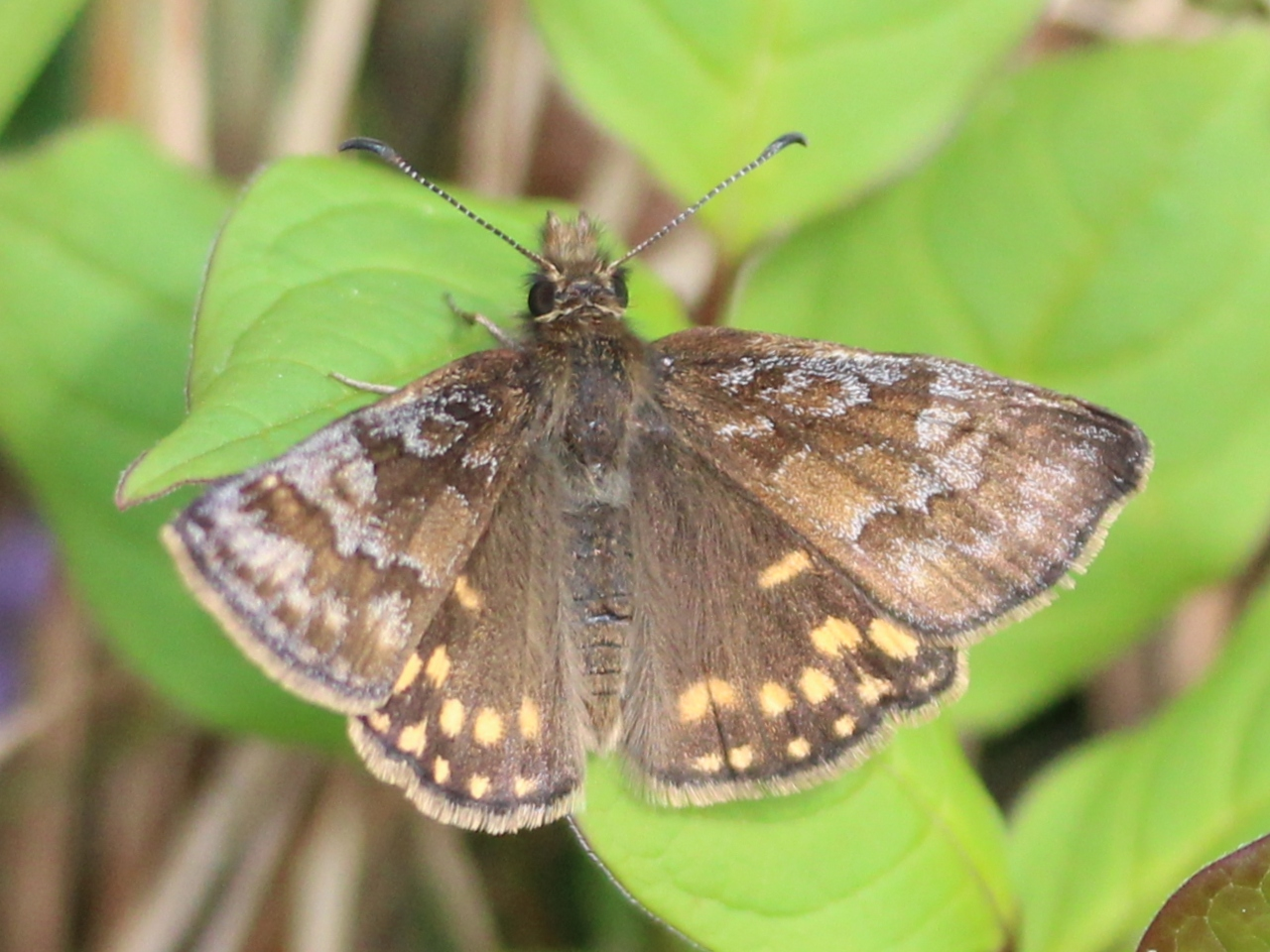 Erynnis montanus in Mount Ibuki, Ibigawa, Gifu prefecture, Japan.